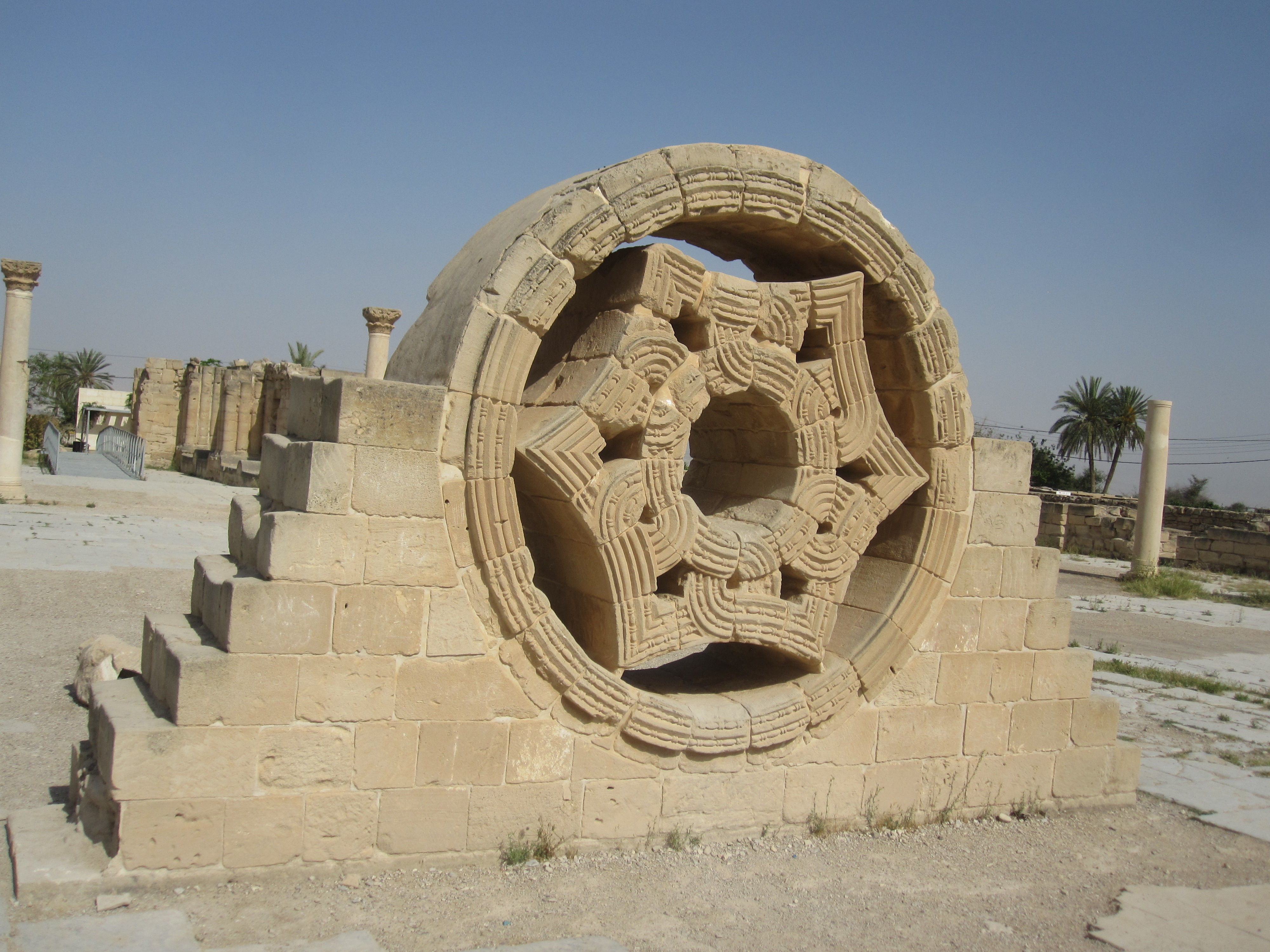 Hisham's Palace window, Palestine.